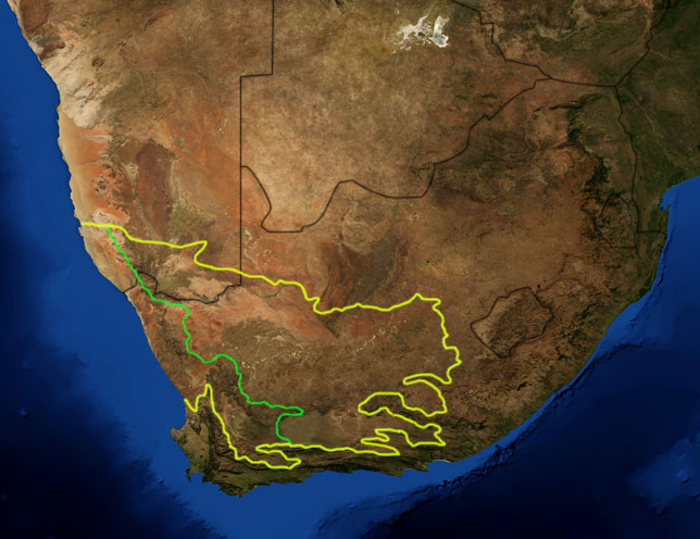 This is a map showing the location of the two Karoo ecoregions of southern Africa, as delineated by the World Wide Fund for Nature. The yellow line encloses the two ecoregions. The green line separates the Succulent Karoo, on the west, from the Nama Karoo, on the east. National boundaries are shown in black. I, Pfly, made it using NASA Blue Marble imagery and ecoregion GIS data which I simplified and digitized in Photoshop.